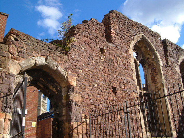 The hall of the Vicars Choral, Exeter All that remains of a C14 college built for the junior clergy of the cathedral, after gradual demolition followed by the 1942 bombing. These "pathetic remains", as Cherry and Pevsner rather cruelly refer to them, are on South Street, and, if the gate is unlocked, it's a handy route through to the Cathedral Close; one of the cathedral towers can be glimpsed through an arch.